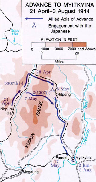 Advance to Myitkyina 21 April - 3 August 1944